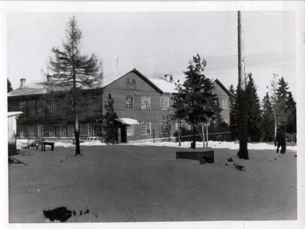 Building of the former Forestry Training Institute at Petrozavodsk, Karelia Region, Soviet Union in 1940s. The building was used by the Finnish Army during Continuation War for reconnaisence training (Osasto Raski).